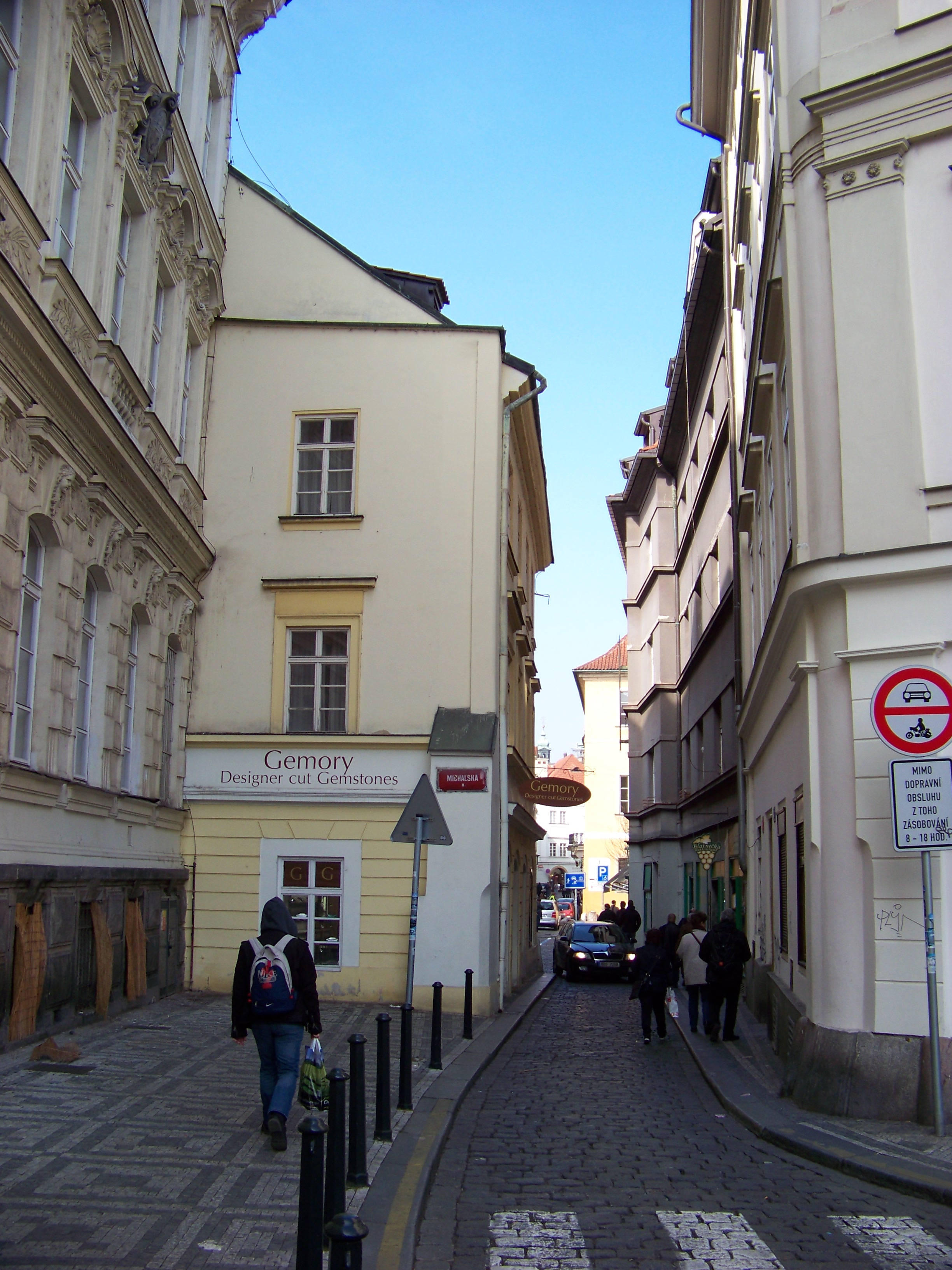 Prague, Old Town, the Czech Republic. Michalská Street, a view from Uhelný trh (Coal Market Square).